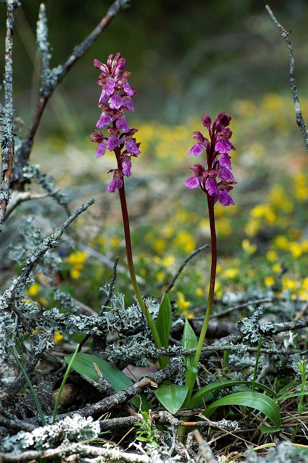 Orchis spitzelii, plants in habitat, Haute-Provence, France.